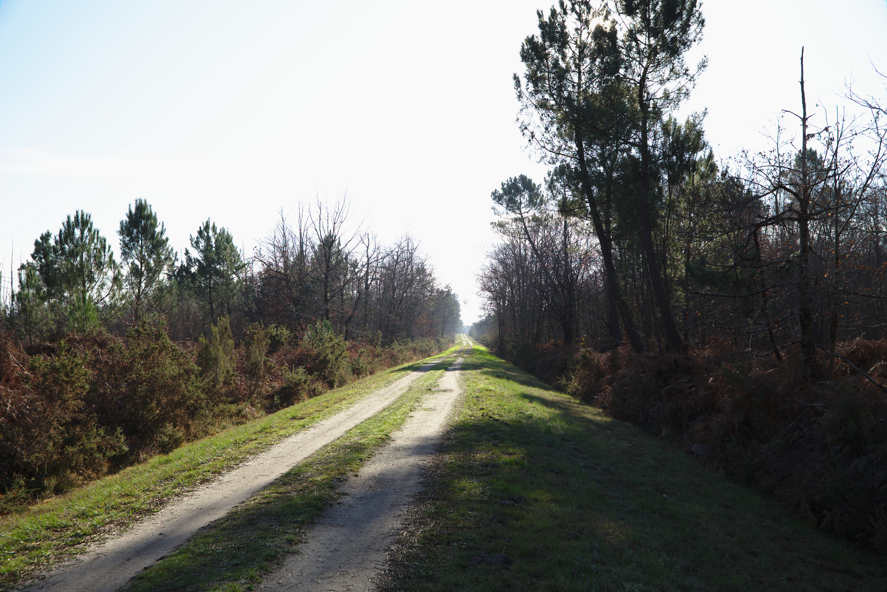 La lébade, DFCI n° 18 au sud de Villeranque, Avensan.